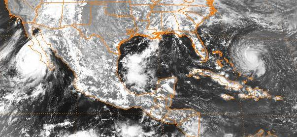 Hurricanes Lester and Andrew on August 22, 1992 at 2101 UTC.